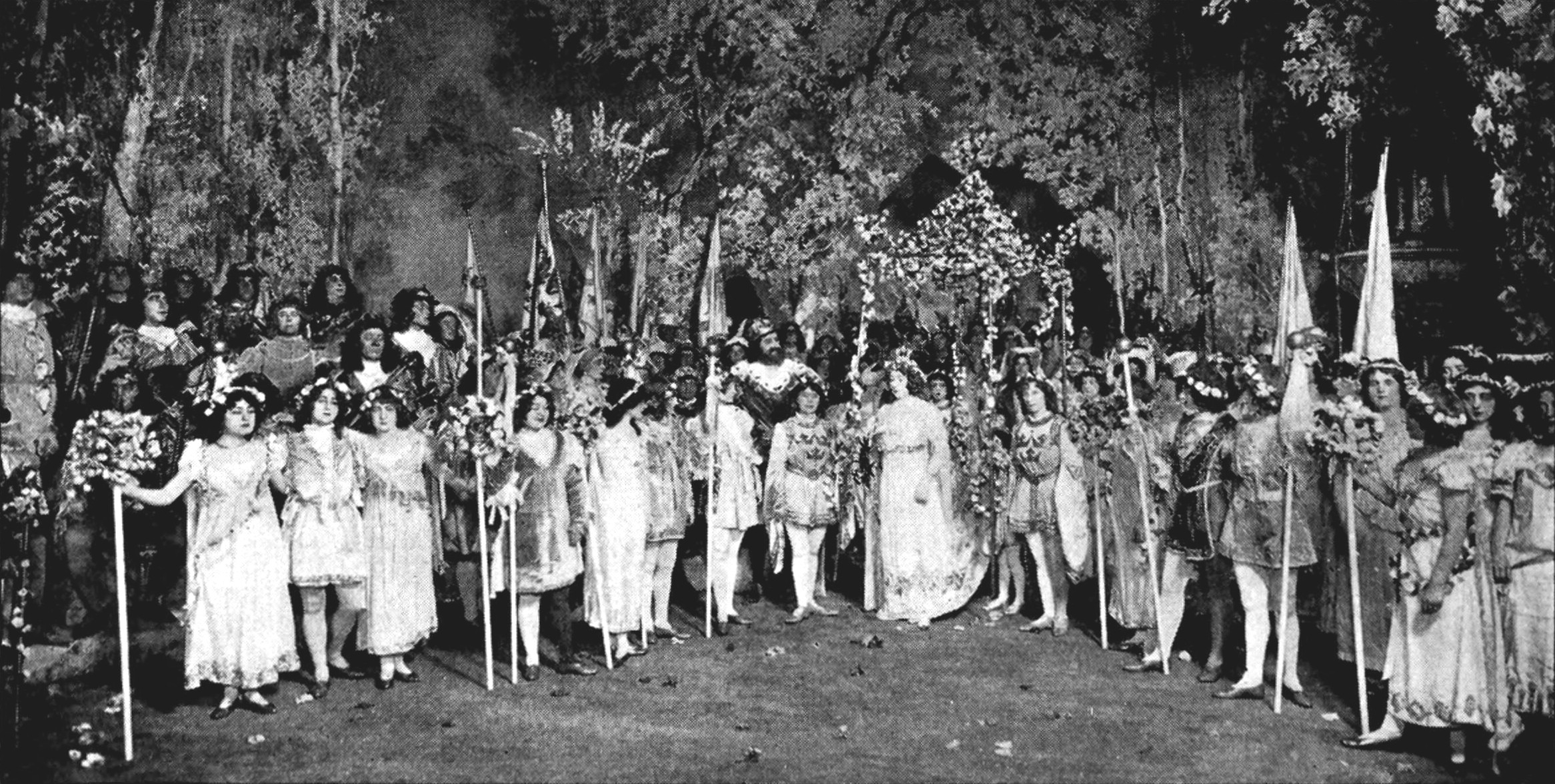 Thuille - Lobetanz, act I - The flower festival - White, N.Y. Title: The Victrola book of the opera : stories of one hundred and twenty operas with seven-hundred illustrations and descriptions of twelve-hundred Victor opera records Year: 1917 (1910s) Authors: Victor Talking Machine Company Rous, Samuel Holland Subjects: Operas Publisher: Camden, N.J. : Victor Talking Machine Co. Text Appearing Before Image: ' Text Appearing After Image: THE FLOWER FESTIVAL—ACT I234 LOHENGRIN (Loh-en-grin) OPERA IN THREE ACTS Words and music by Richard Wagner. First produced at Weimar, Germany, August28, 1850, under the direction of Liszt. Produced at Wiesbaden, 1853; Munich and Vienna, 1858; Berlin, 1859. First London production, 1875, and also, in Italian, at Covent Gardenthe same year. First production in English at Her Majestys, in 1880. St. Petersburg, 1875;Paris, 1887. First American production at Stadt Theatre, in New York, April 3, 1871 ; inNew York, in Italian, March 23, 1874, with Nilsson, Cary, Campanini and Del Puente; inGerman, in 1885, with Brandt, Krauss, Fischer and Stritt—this being Anton Seidls Ameri-can debut as a conductor. First New Orleans production, in Italian, December 3, 1877; inFrench, March 4, 1889. Lohengrin is the second of all operas in popularity in Germany (Carmen taking the lead),and during the decade, 1901-1910, had 3,458 performances. Characters HENRI THE FOWLER. King of Germany Bass LOHENGRIN T